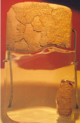 Treaty of Kadesh, the earliest surviving peace treaty in history, concluded in the 13th century BC between Egyptian pharaoh Ramesses II and Hattusili III, king of the Hittites. This tablet from the Archaeological Museum in Istanbul, Turkey, is one of the three known tablets.